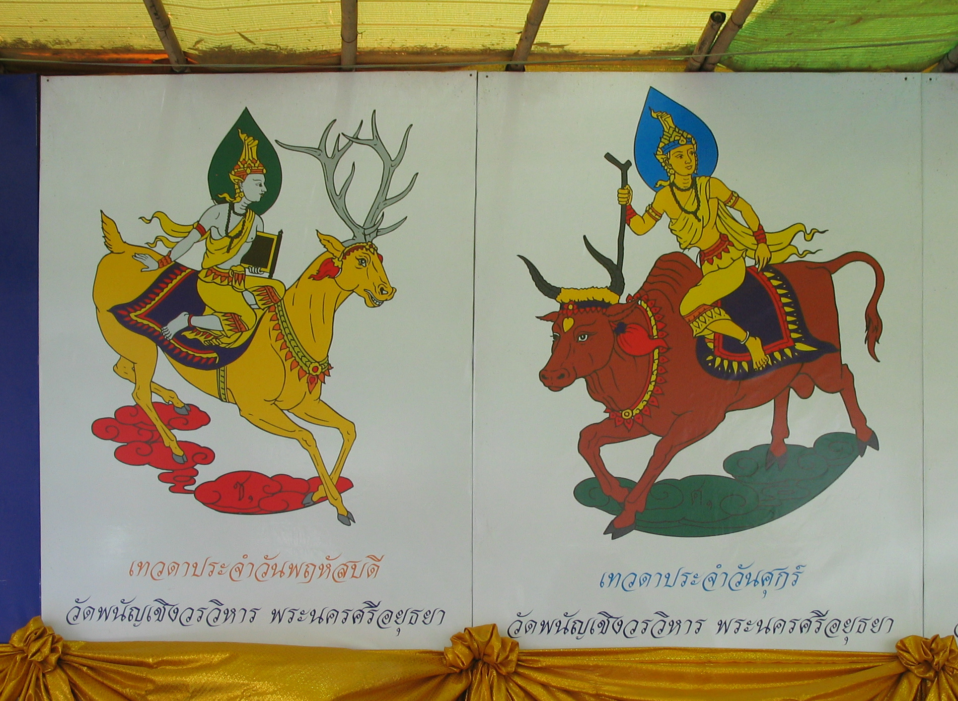 Personification of weekdays in Thailand: Thursday and Friday